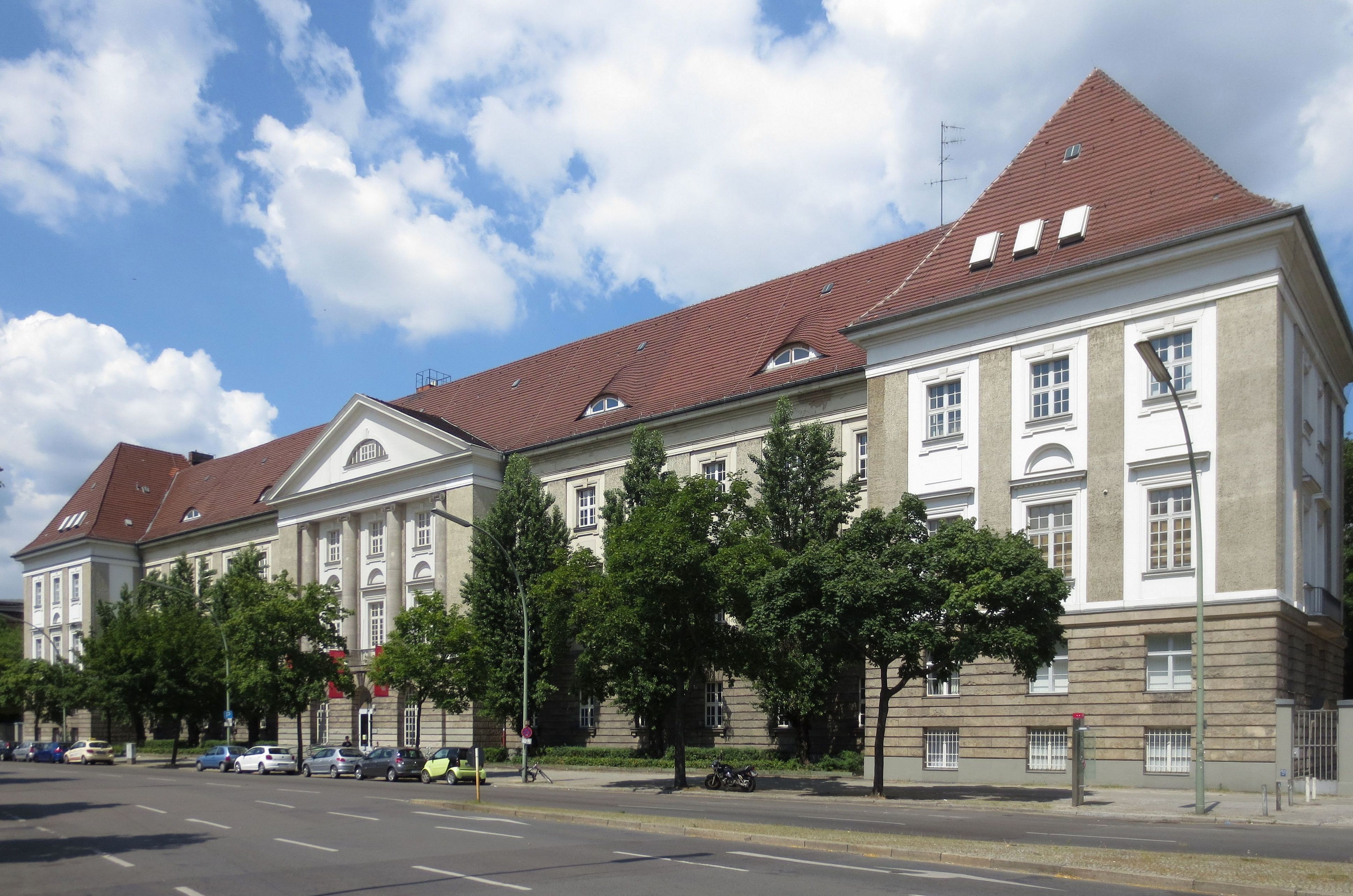 The "Media House" of the Berlin University of the Arts at Grunewaldstraße No. 2-5 in Berlin-Schöneberg. The building was constructed from 1914 to 1920 to designs by Anton Adams, Georg Thür and Wiens as Royal School of Arts. It has been designated as a cultural heritage monument.